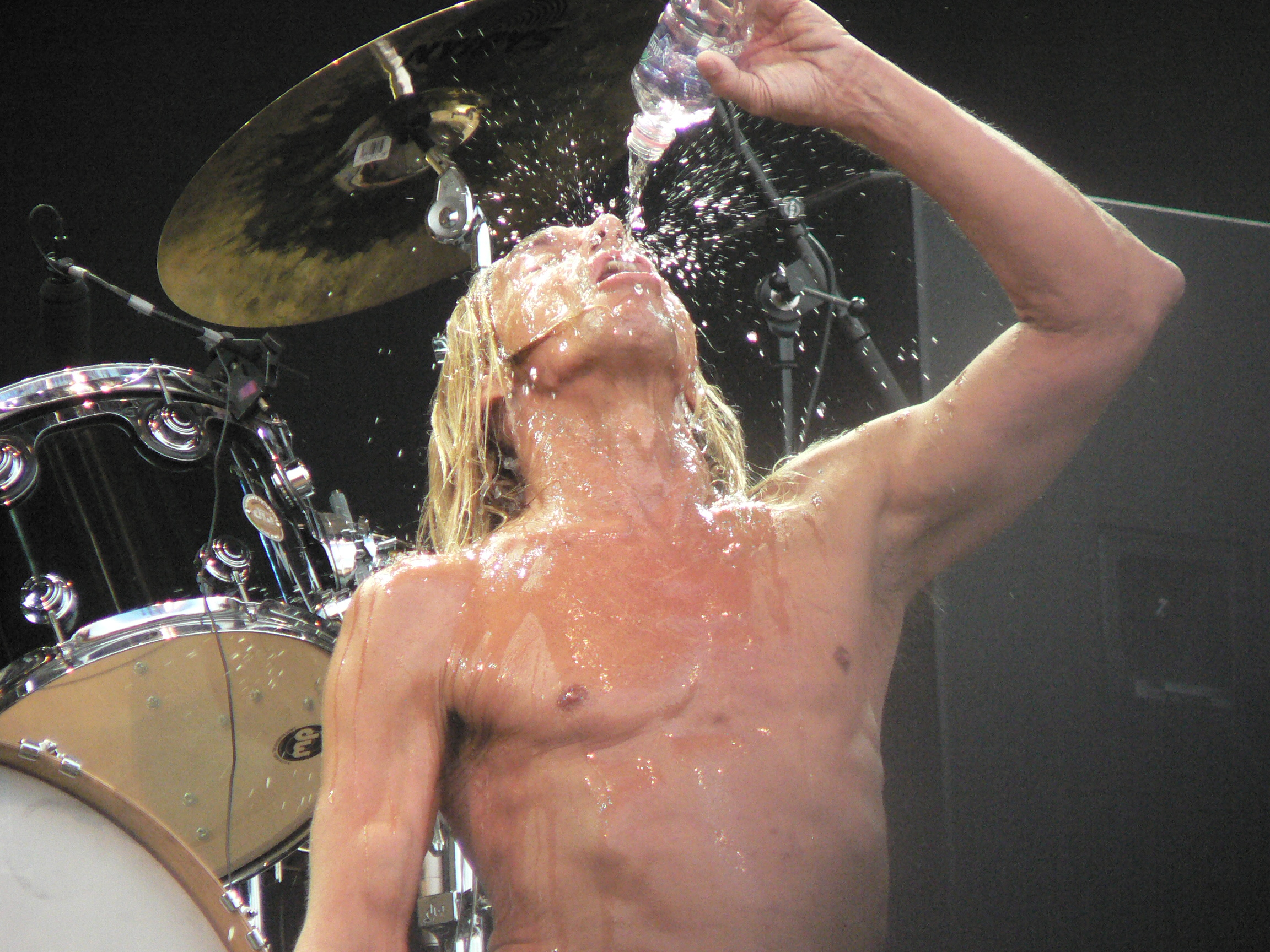 Live on the 15th of August, 2006. Budapest, Sziget Festival. Grand Stage. Iggy Pop.